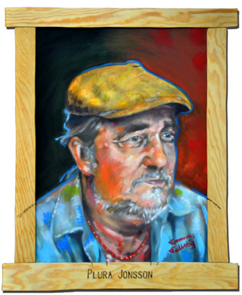 The swedish artist Plura Jonsson painted by Tommy Tallstig